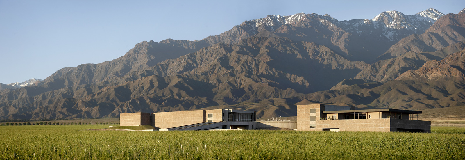 Winery in Valle de Uco, Tunuyán, Mendoza, Argentina